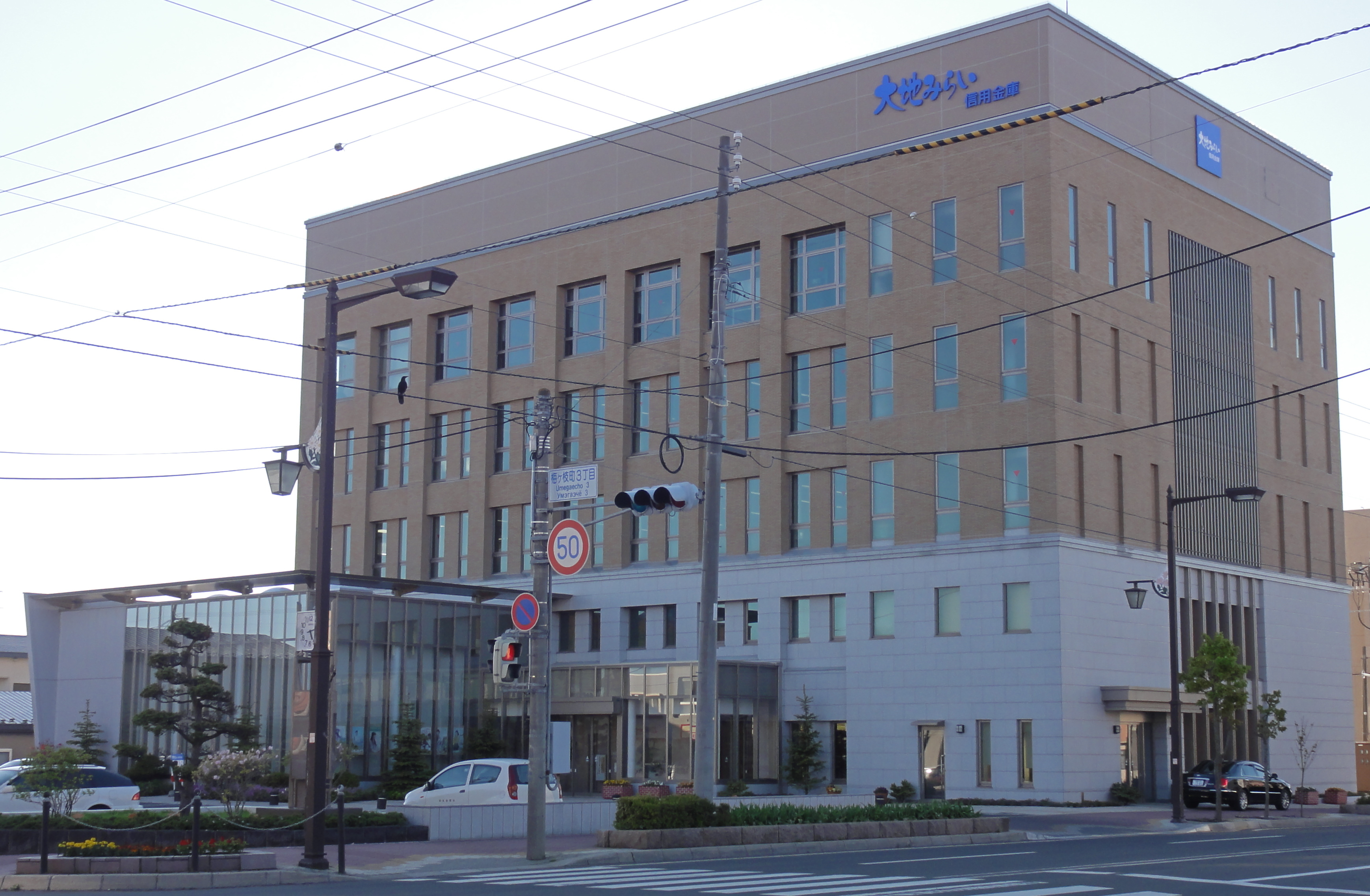 Daichi mirai shinikn bank,Hokkaido Pref., Japan